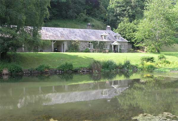 Pond Cottage Endsleigh Restored by the Landmark Trust and available for holiday lets.